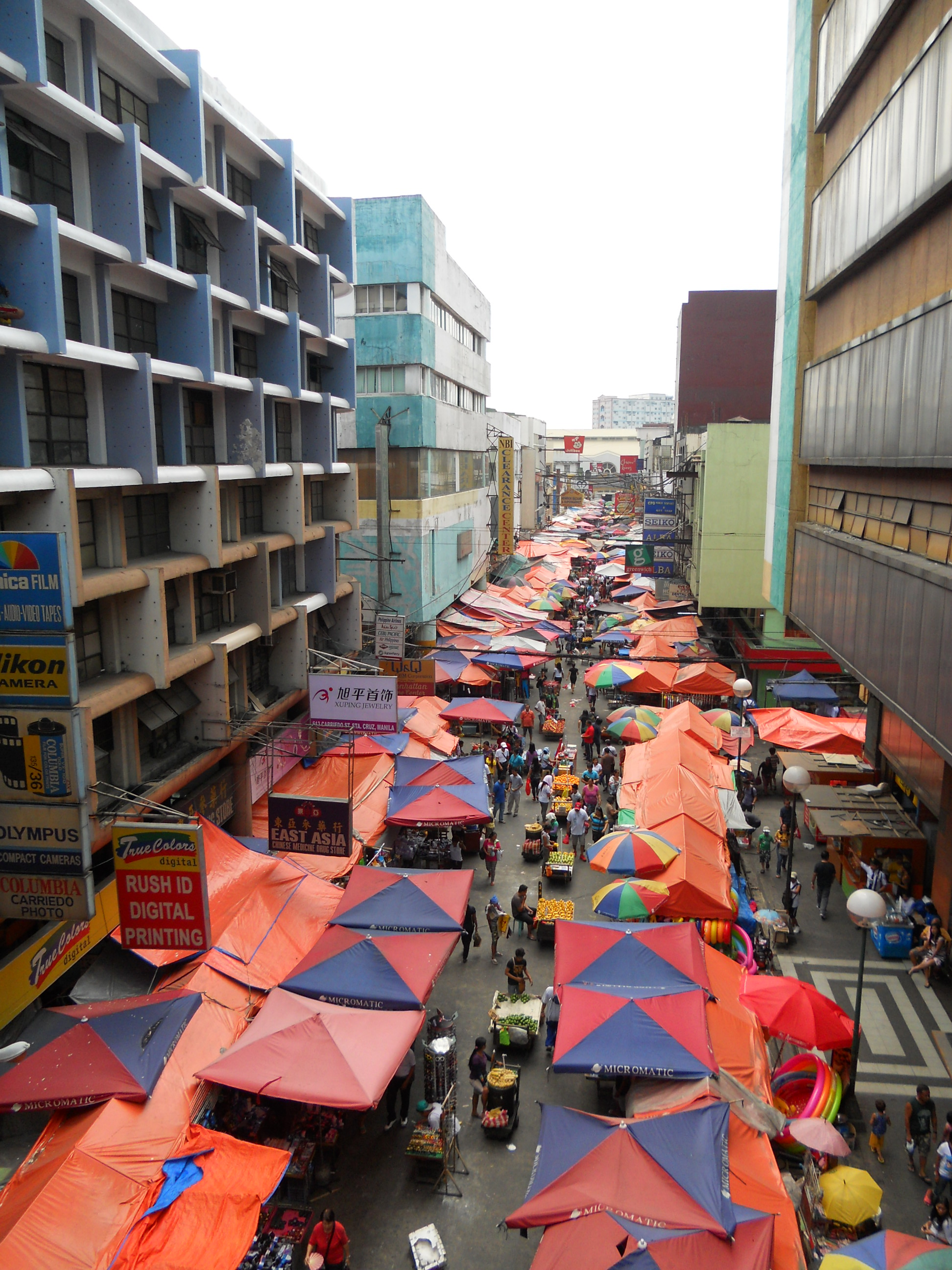 Quiapo